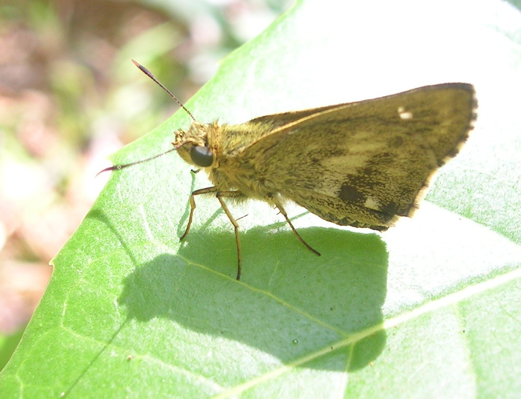 Halpe homolea hindu from the Brahmagiri, Coorg region. (ID by Firos)